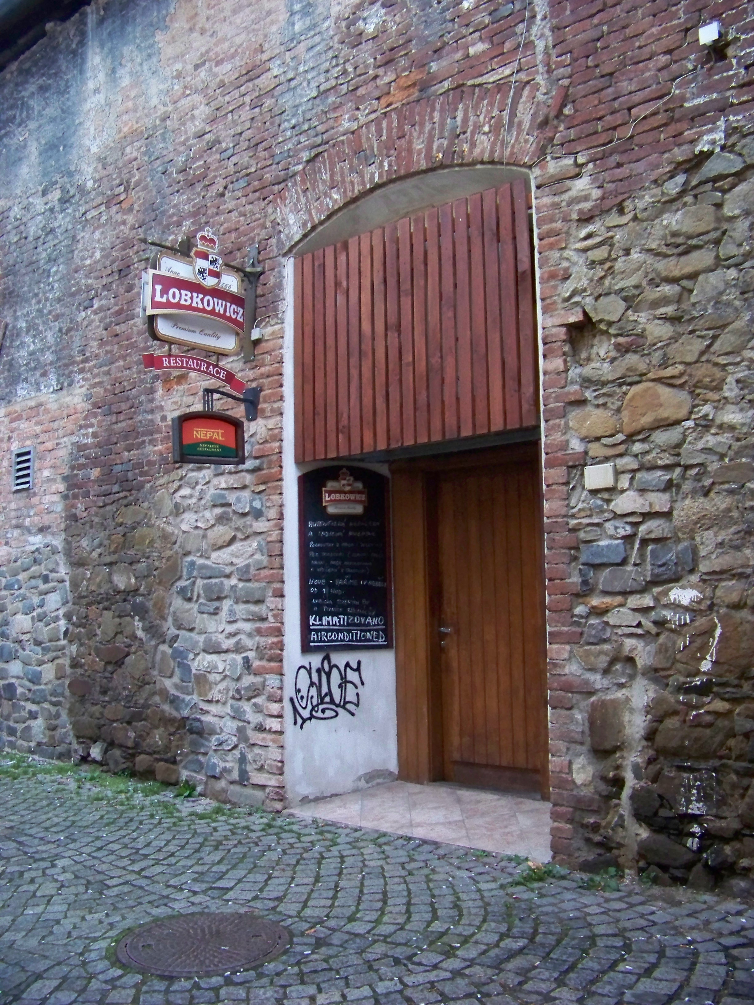 Olomouc, Olomouc District, Olomouc Region, Czech Republic. Mlýnská 938/4, a restaurant.